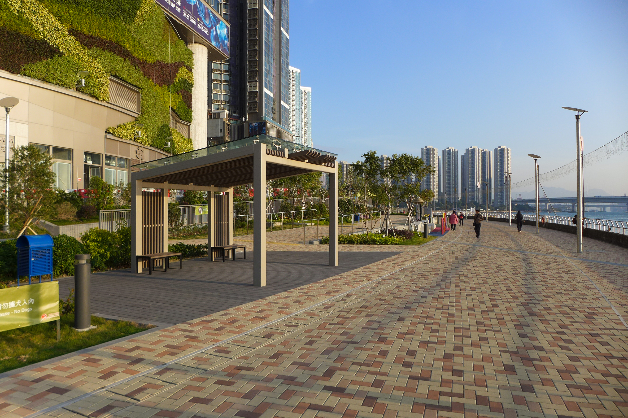 Tsuen Wan Park Phase 3